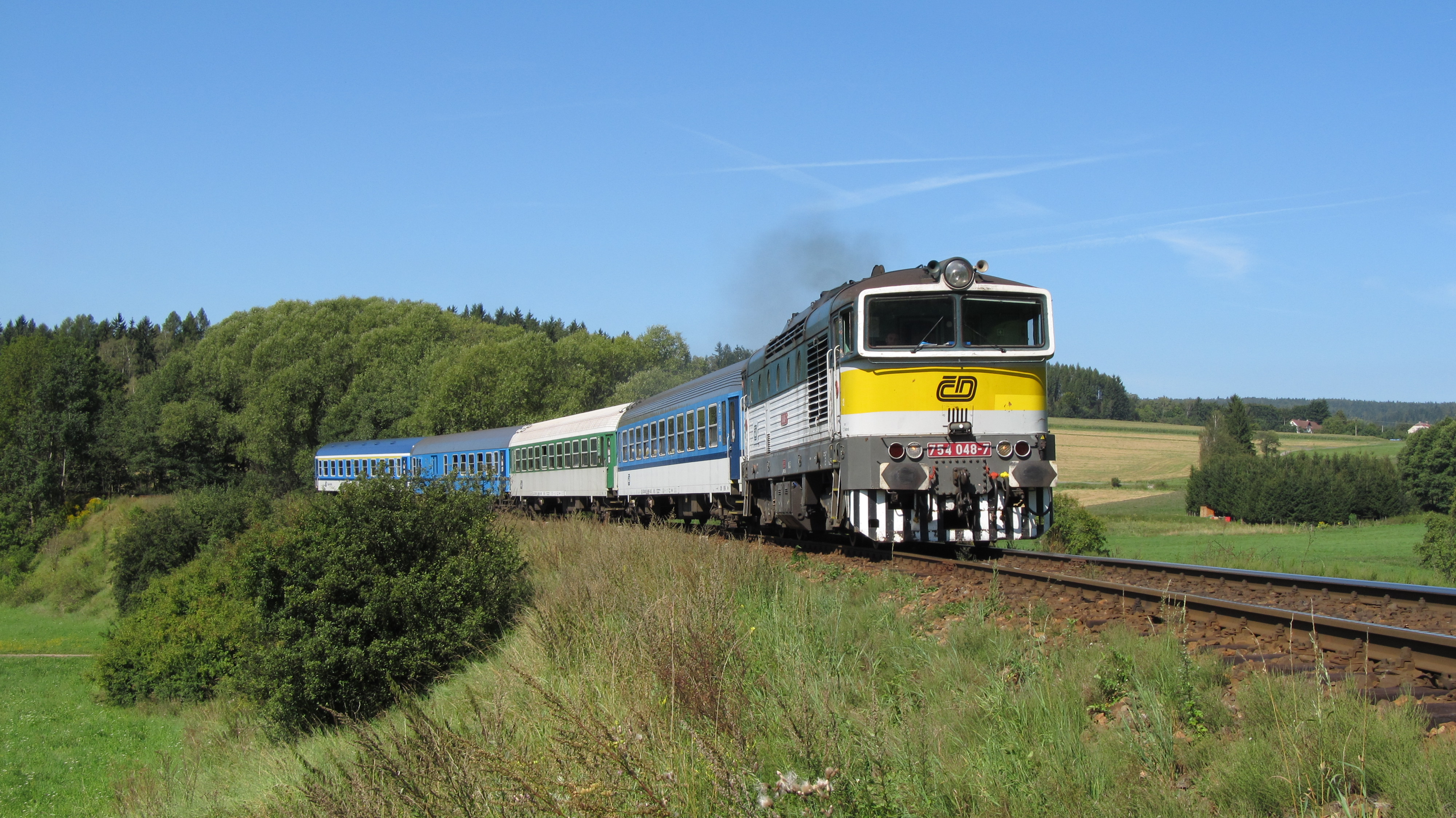 Diesel locomotive 754.048-7 of České dráhy headed by joint R 850 Sněžka the railway line 032 Jaroměř - Trutnov between Velké and Malé Svatoňovice